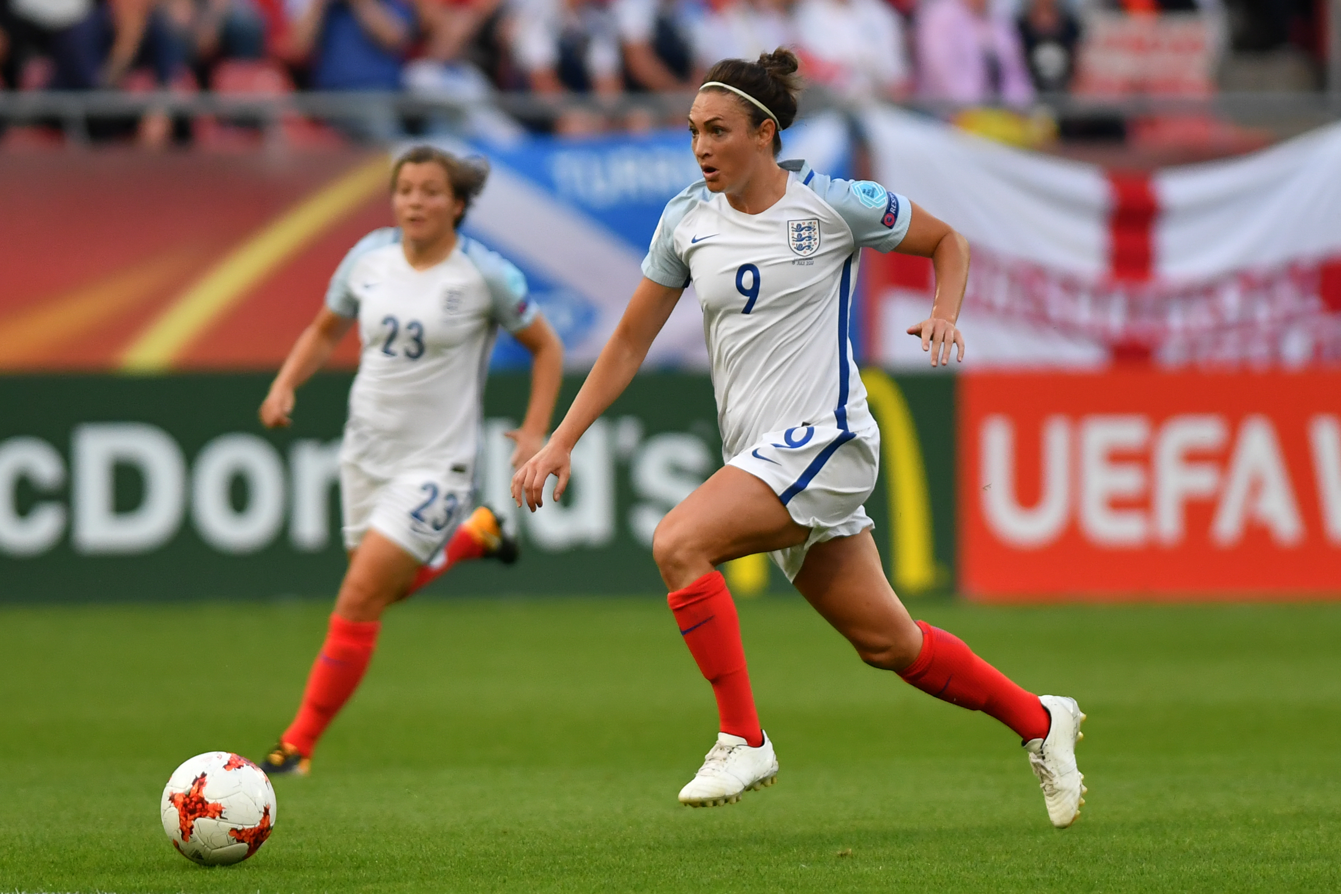 Utrecht, Netherlands, sports, soccer, UEFA Women's Euro 2017 - England vs Scotland. Image shows